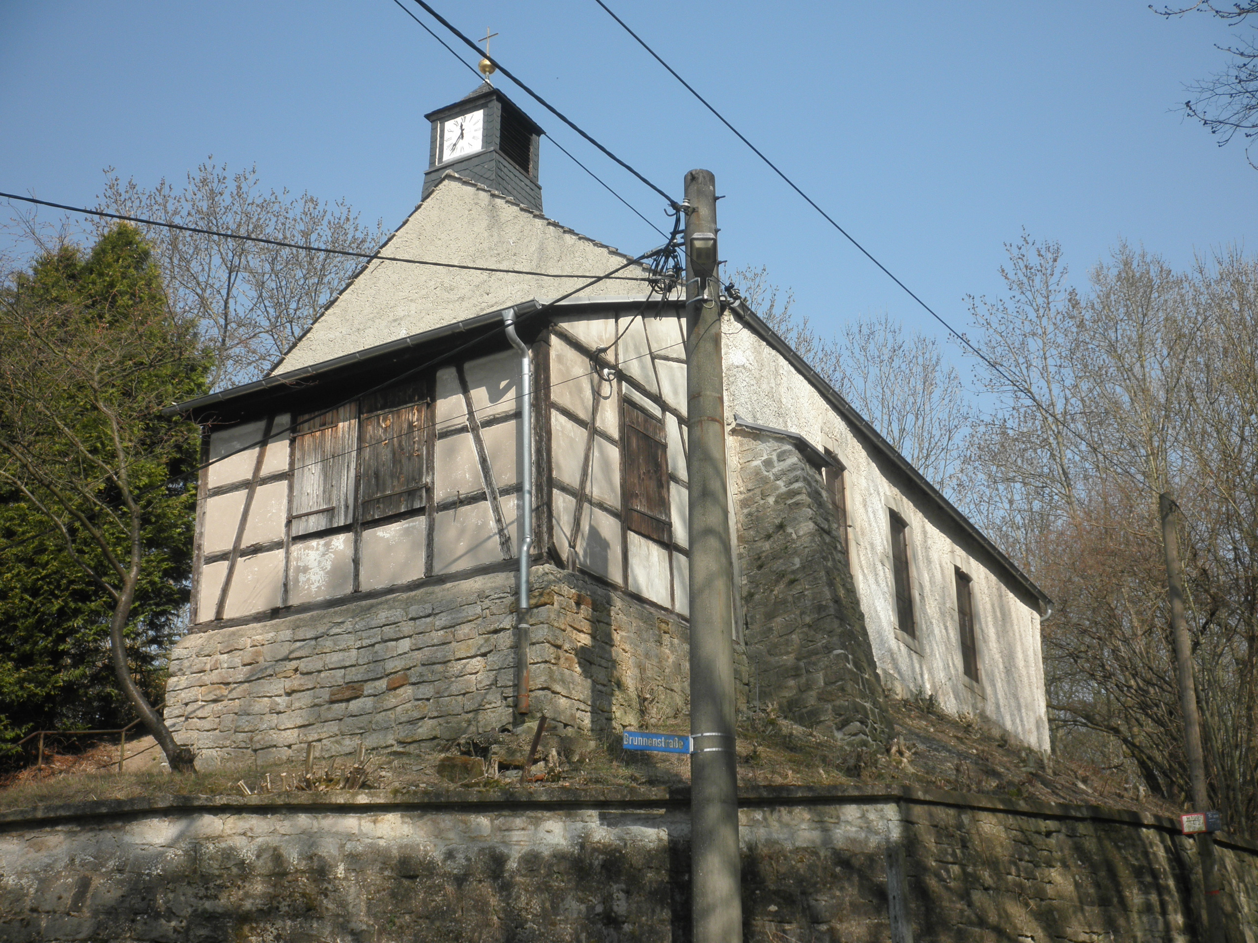 Church in Hochstedt (Erfurt) in 2018